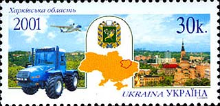 Stamp of Ukraine Почтовая марка Укрпошты в честь 70-летия Харьковской области. Изображён трактор ХТЗ.